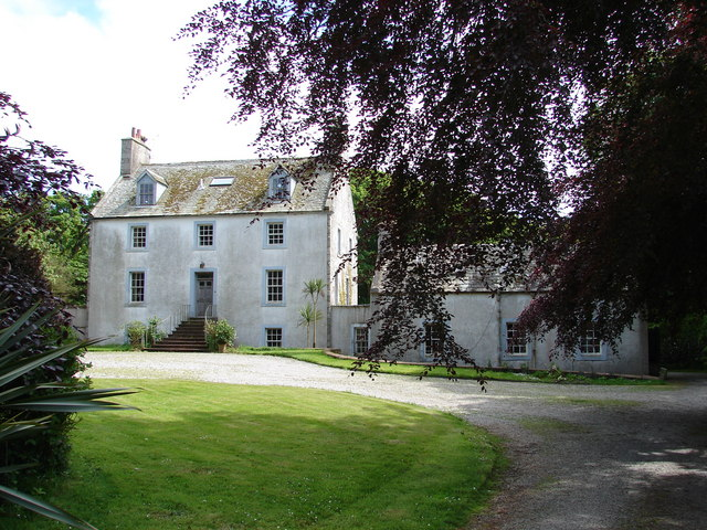 Tonderghie House Built C18 close to the coast west of Isle of Whithorn, Tonderghie is a harled laird’s house with main 4-storey block and single storey pavilion/garage; the gardens and house had C20 additions and alterations.